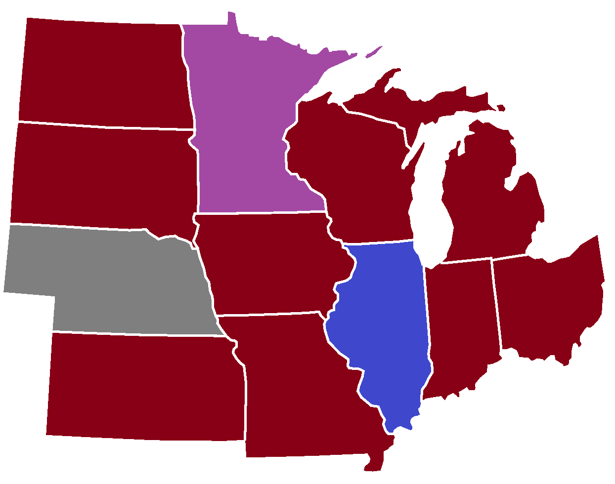 Midwestern legislatures by party majority as of January 2020. Modified from the original by Zedgefan